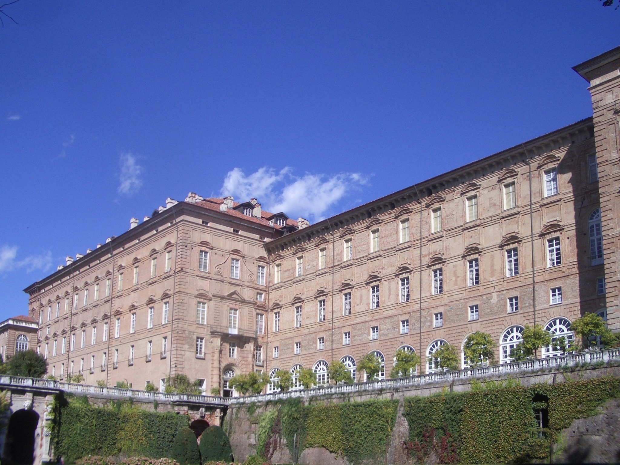 Agliè, View of the castle